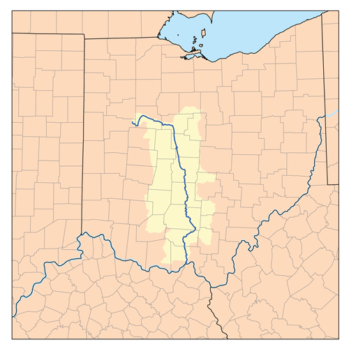 Map of the Scioto River watershed.